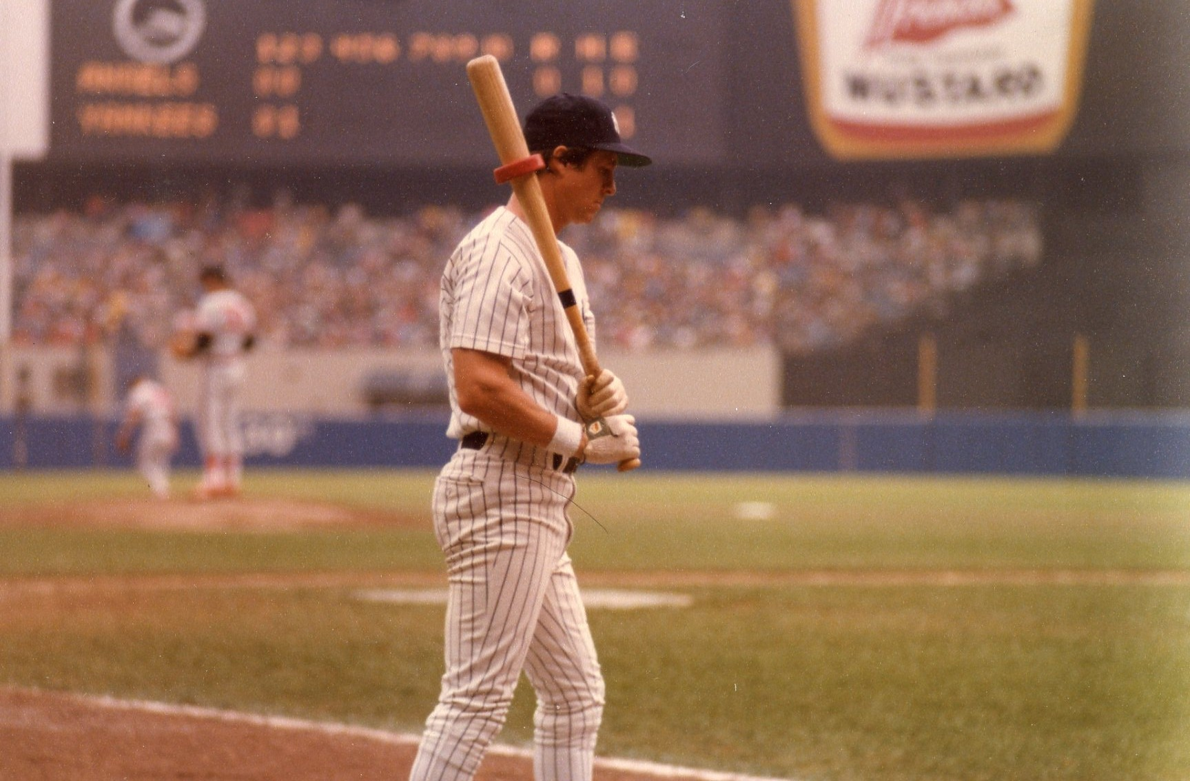 New York Yankees player Bobby Murcer on deck at Yankee Stadium.